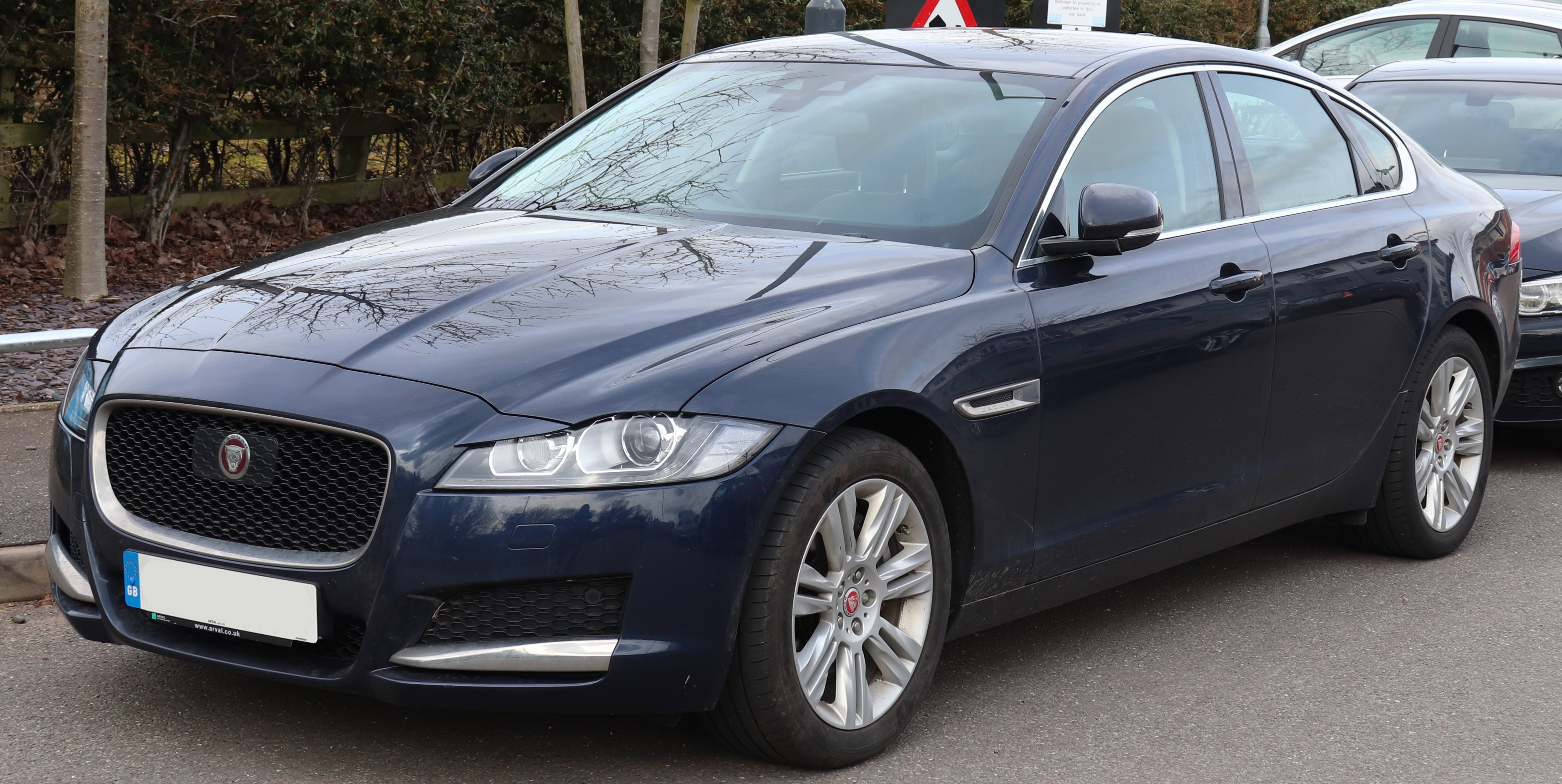 2017 Jaguar XF Portfolio D Automatic 2.0 Taken in Leamington Spa